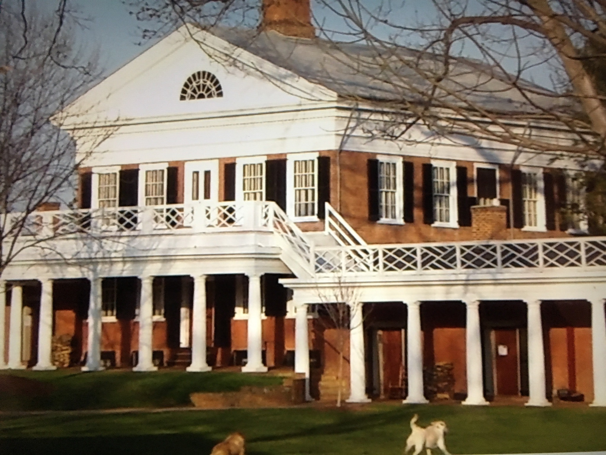 Univ. of Virginia Lawn